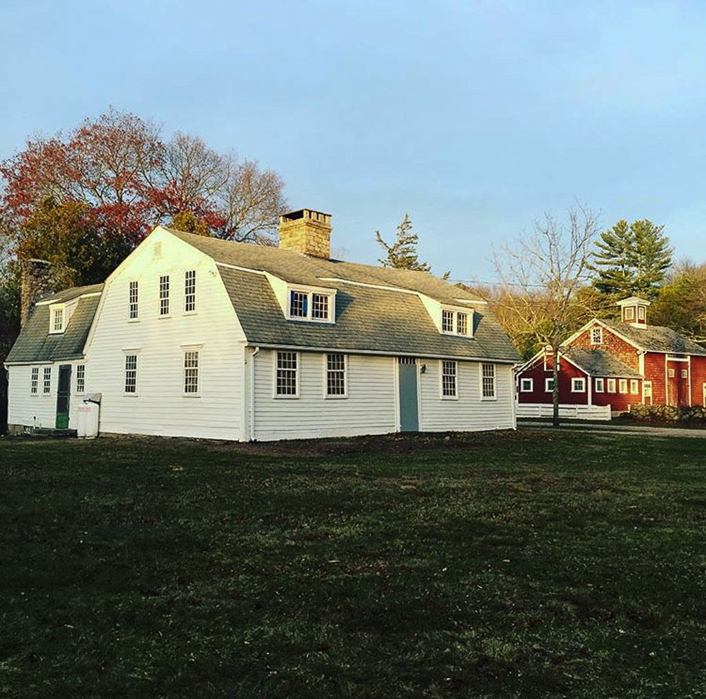 Current Picture taken by the owner of the house and barn as it stands today